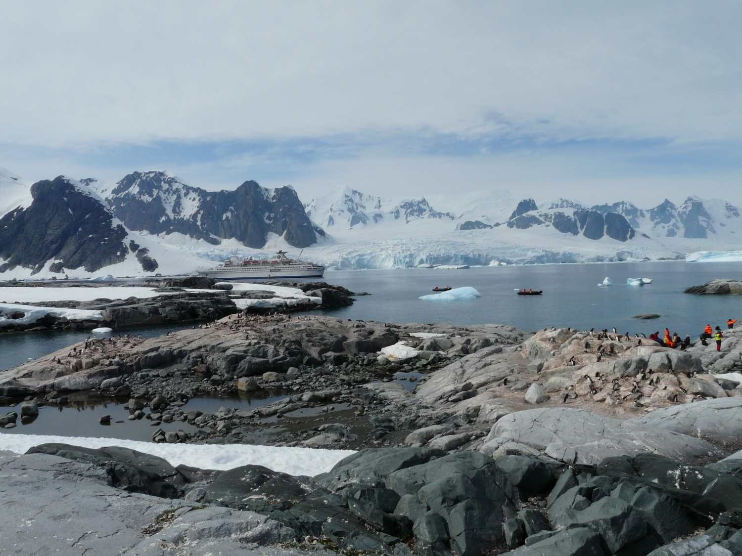 Ms-delphin, Our vessel, near Peterman Island